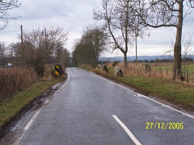 Stone Circle with Road. Here the road (B947 west of Blairgowrie) cuts through the centre of an ancient stone circle. Six stones remain, 3 either side.